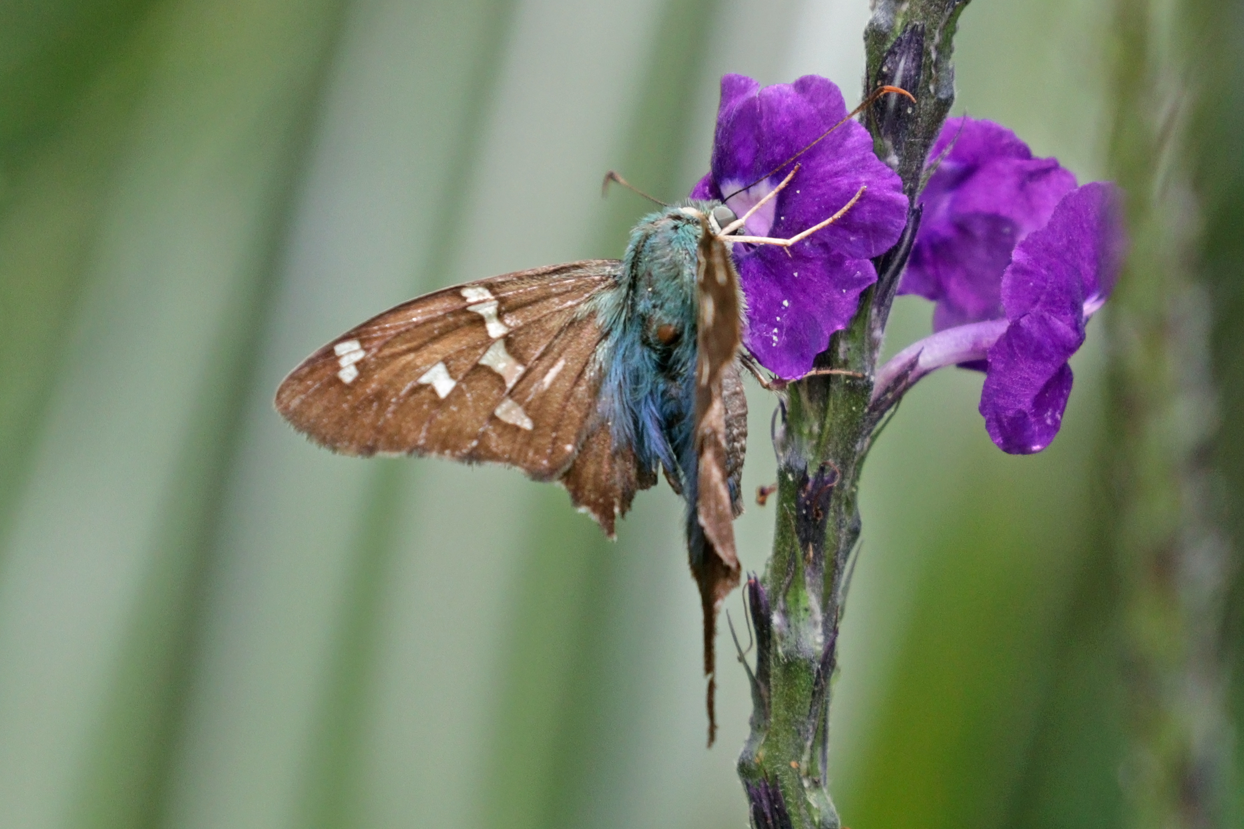 Esmeralda longtail (Urbanus esmeraldus) male, Alajuela, Costa Rica